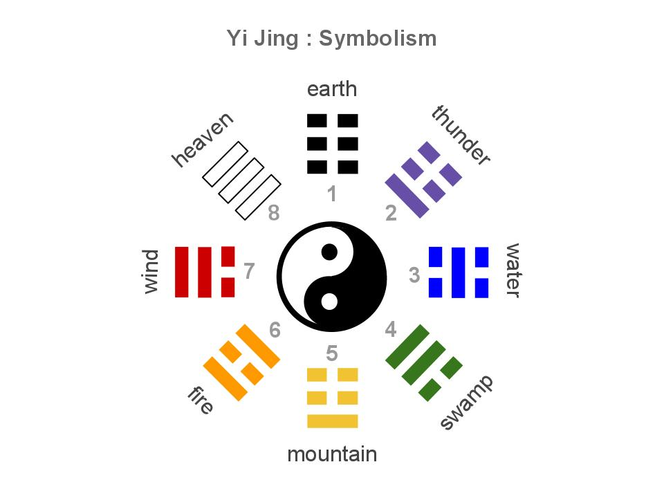 Yi Jing (I Ching) symbols